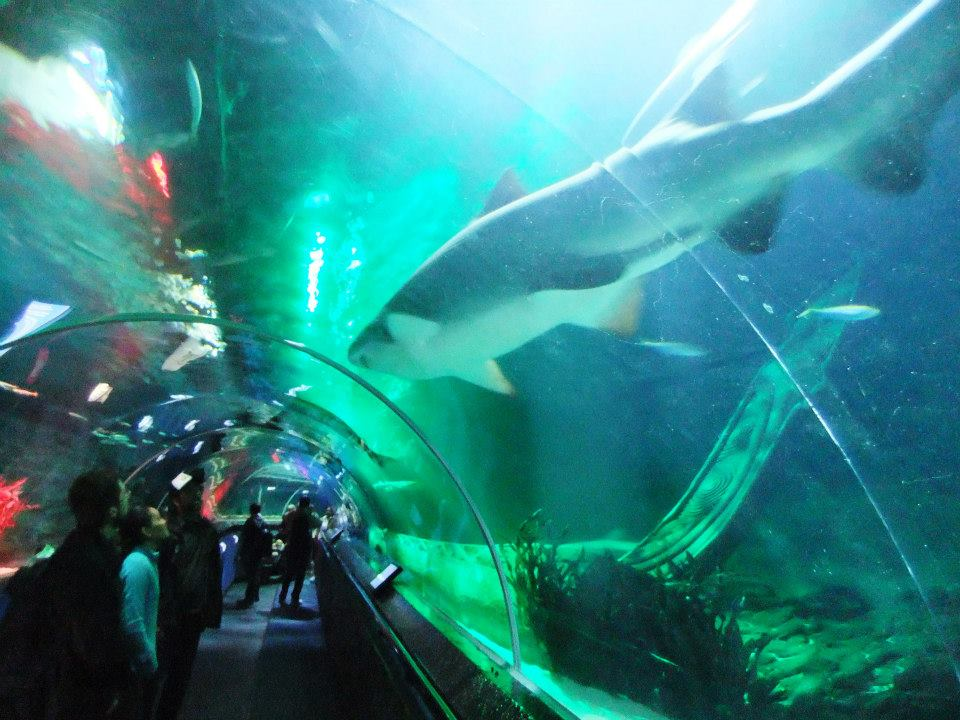 Visit to the Kelly Tarlton's Sea Life Aquarium shark tunnel 2013